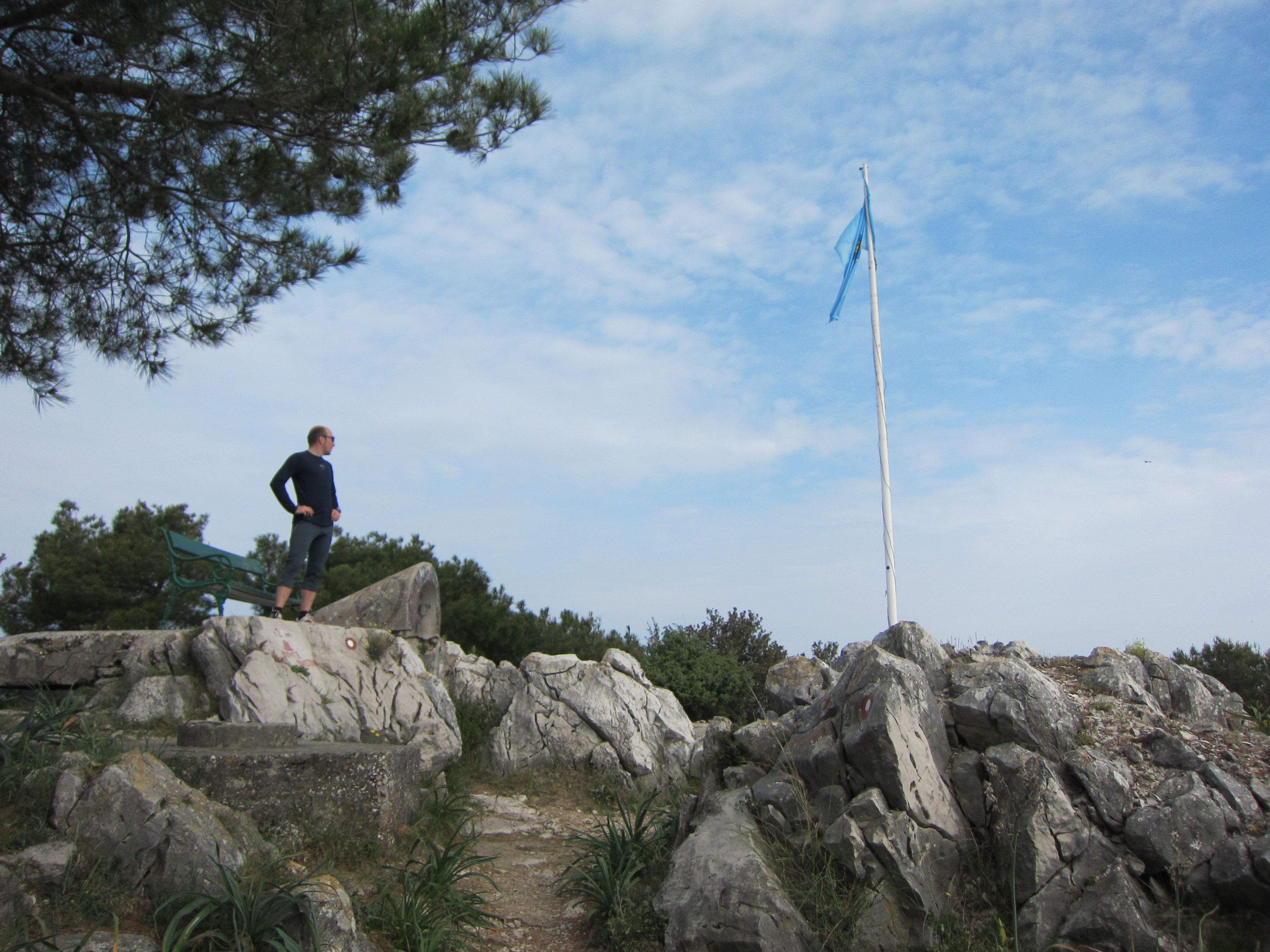 At the top of the Vela Straža, Mali Lošinj - Croatia.